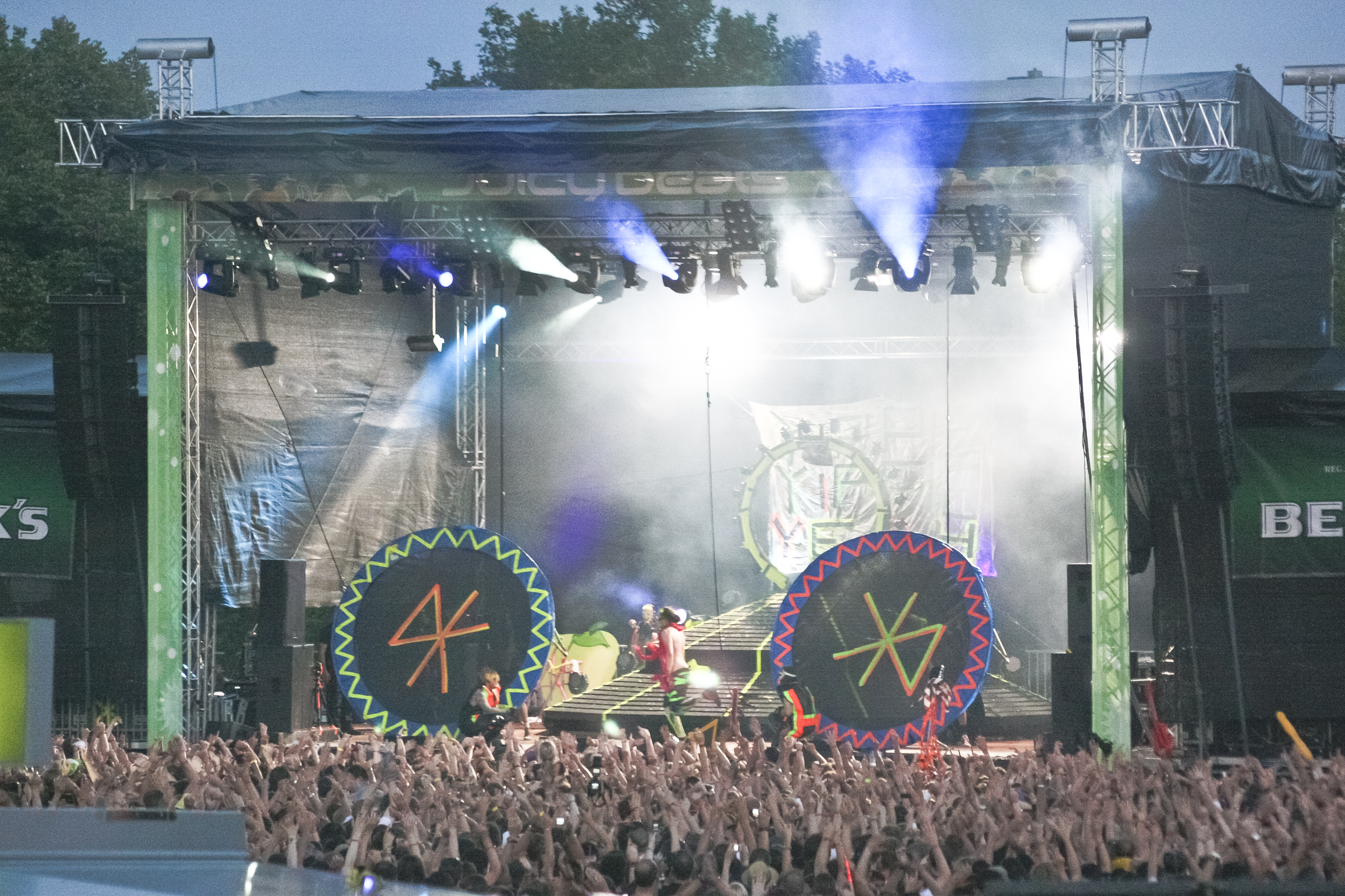 Deichkind at Juicy Beats Festival, Dortmund/Germany